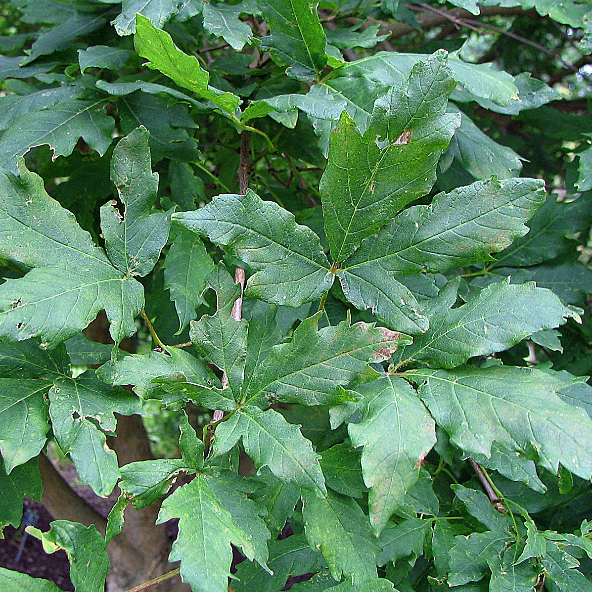 Acer triflorum leaves, Kew